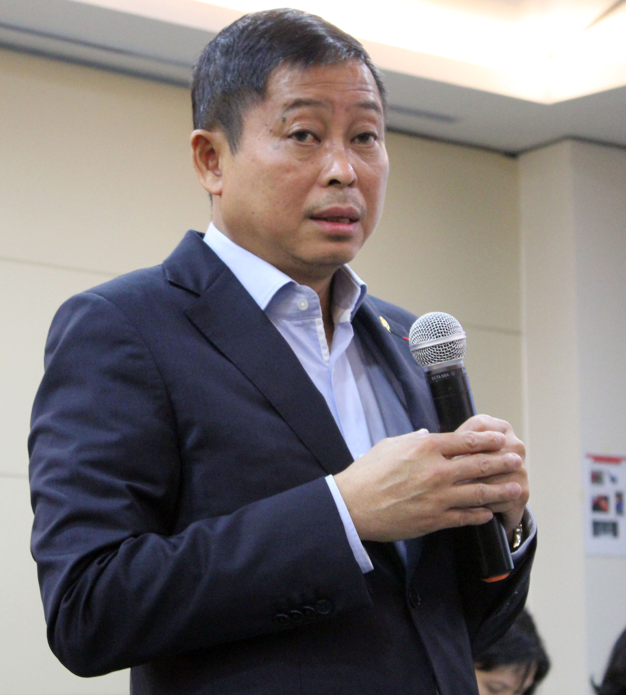 Ignasius Jonan, Indonesian Minister of Energy and Mineral Resources, at Atma Jaya University 12 April 2019